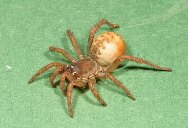 Female Ryuthela secundaria from Okinawa. The color of the abdomen is unusual.